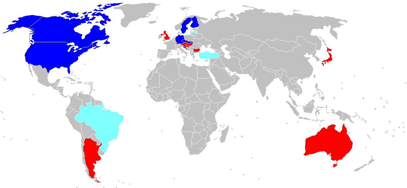 Participants of 2012 IIHF World inline hockey championhips Top division I. division Other qualification teams